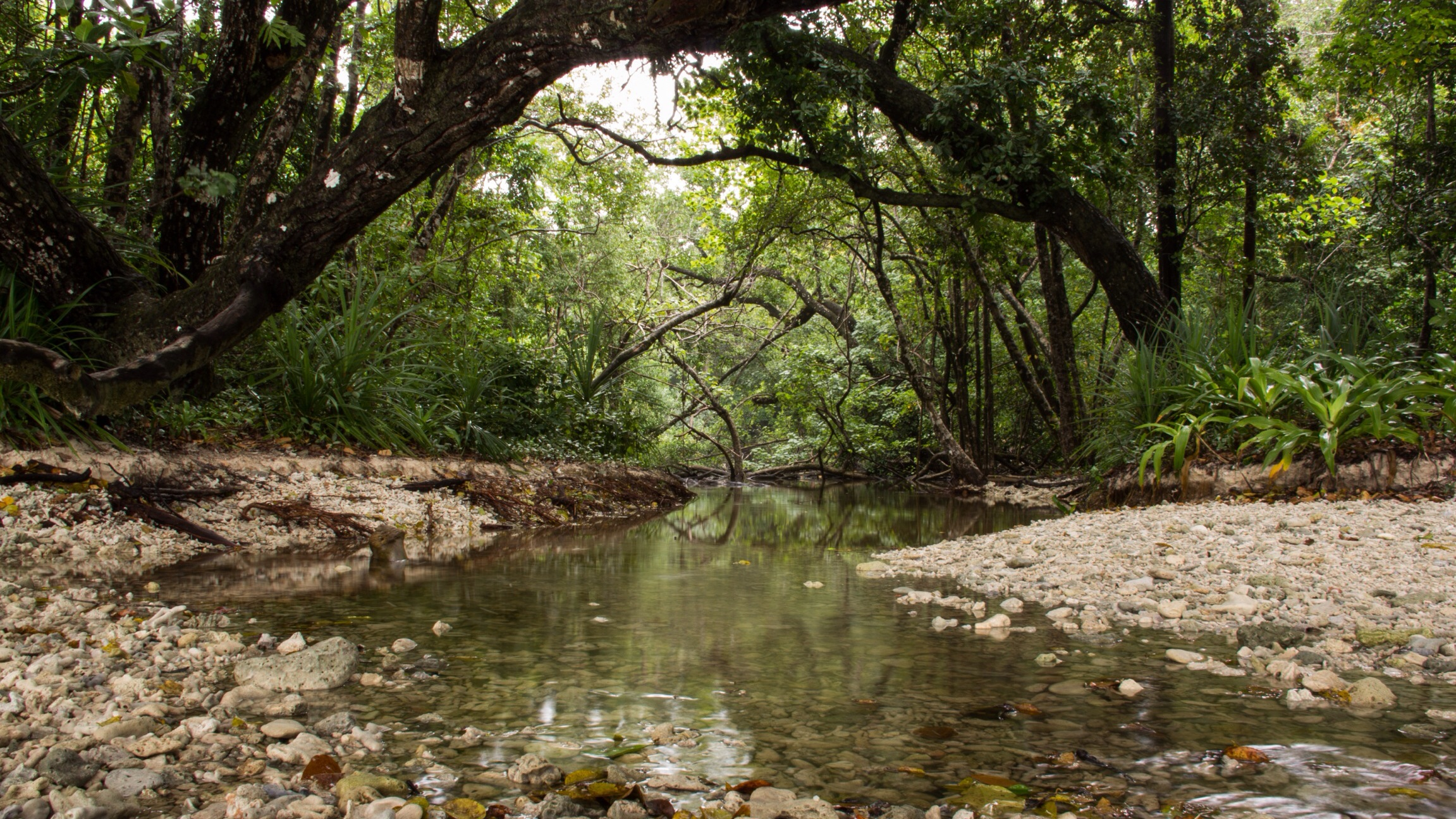 Ujung Kulon (means : West End) National Park is located at the westernmost tip of Java, within Banten province of Indonesia.